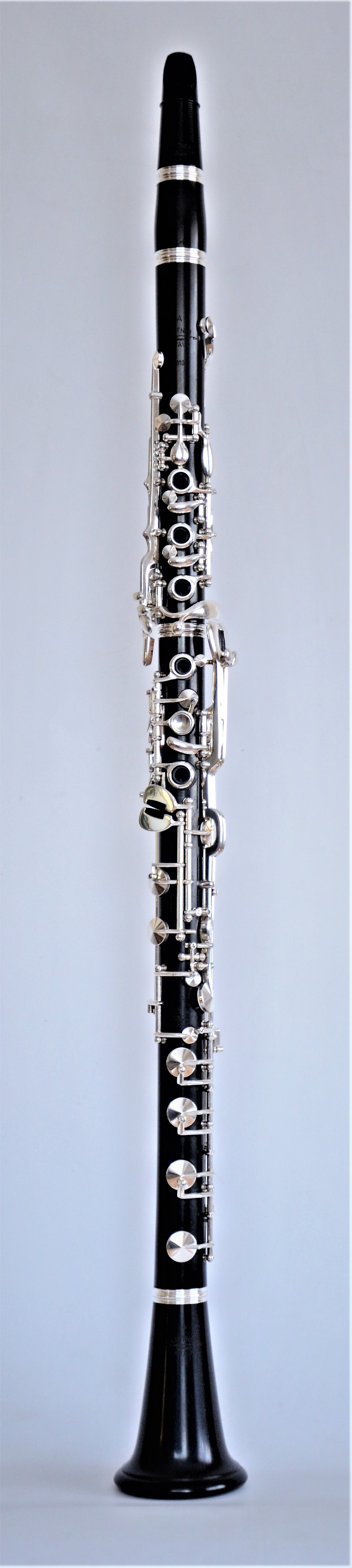 Basset clarinet in A